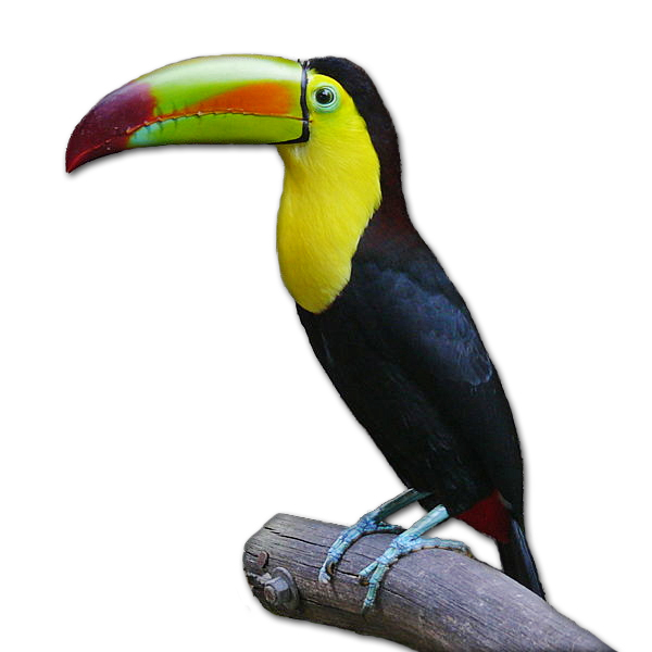 A caged Keel-billed Toucan (Ramphastos sulfuratus). Photo taken with a Panasonic Lumix DMC-FZ50 in Quintana Roo, Mexico.